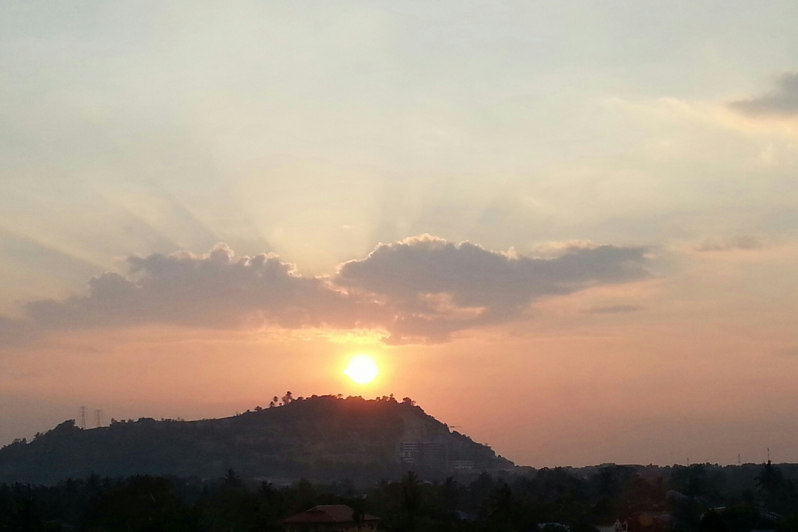 Sunset at Kingsley Hill, Putra Heights, Selangor, Malaysia.